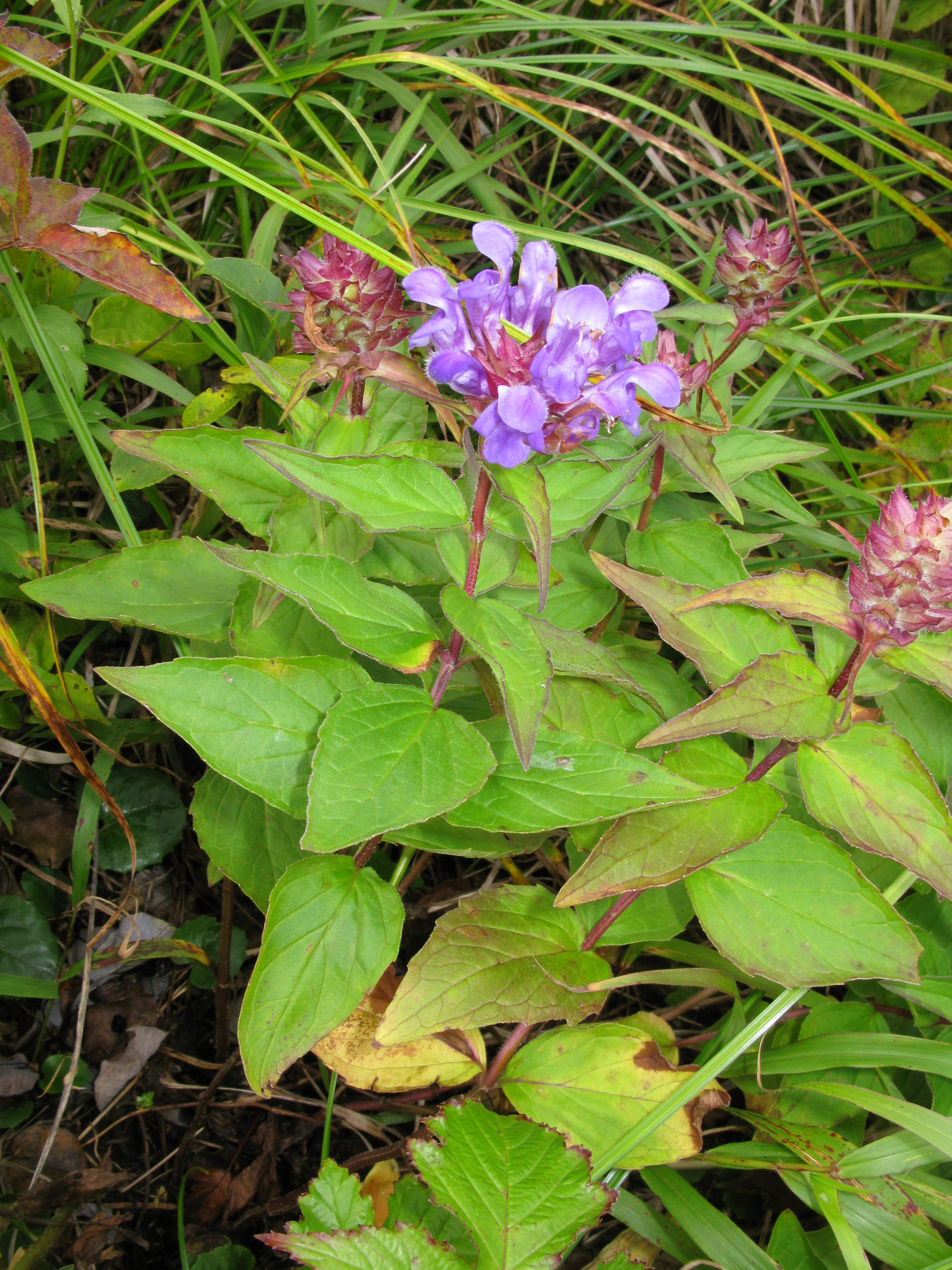 Prunella prunelliformis, Aizu area, Fukushima pref., Japan